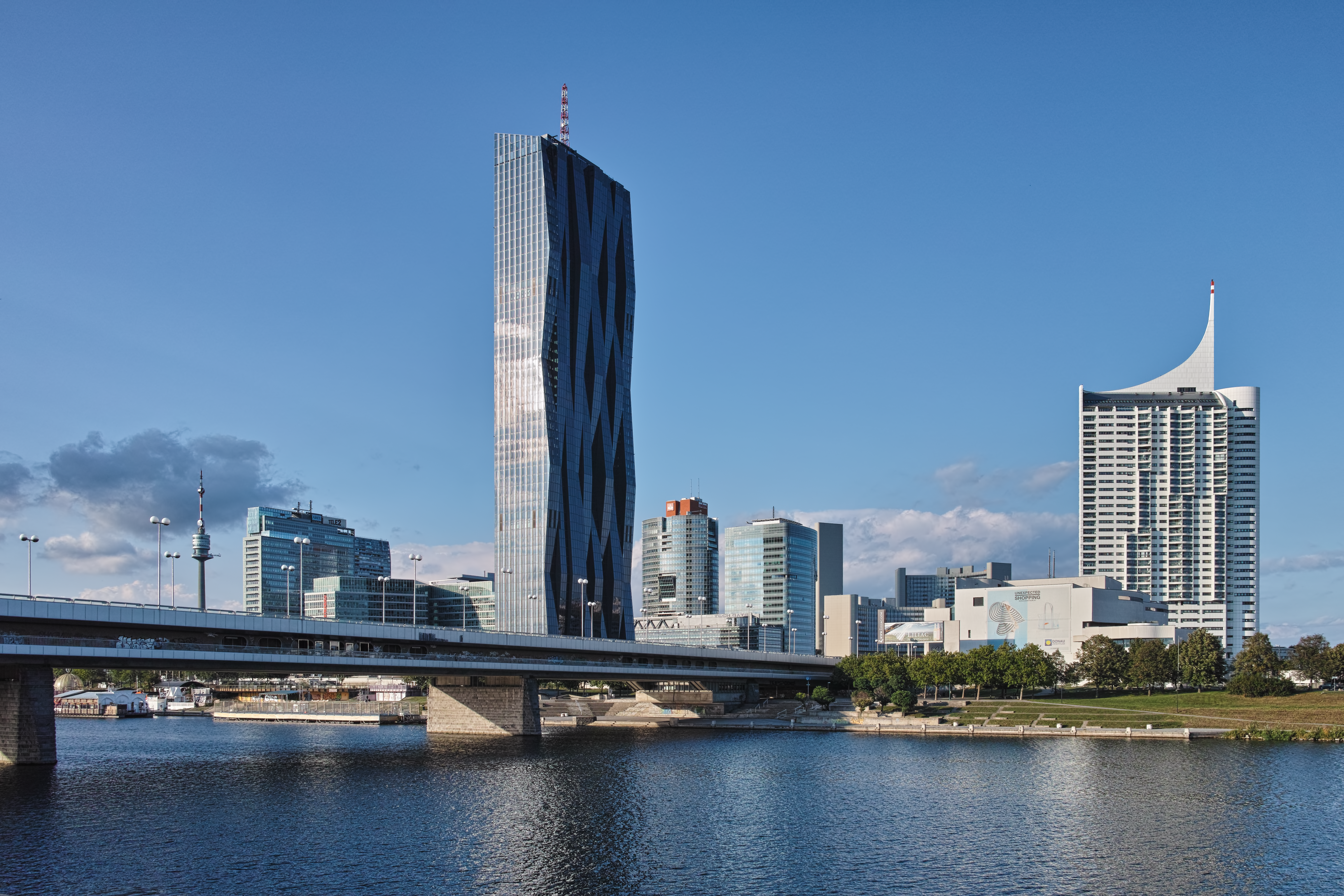 The Donau City in Vienna from south-southwest on August 27, 2014.